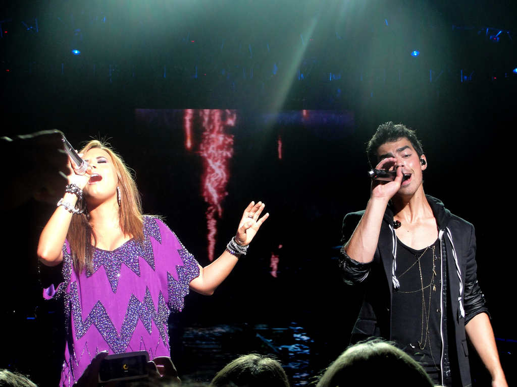 Joe Jonas and Demi Lovato performing in the Jonas Brothers Live In Concert aka Camp Rock 2 Tour